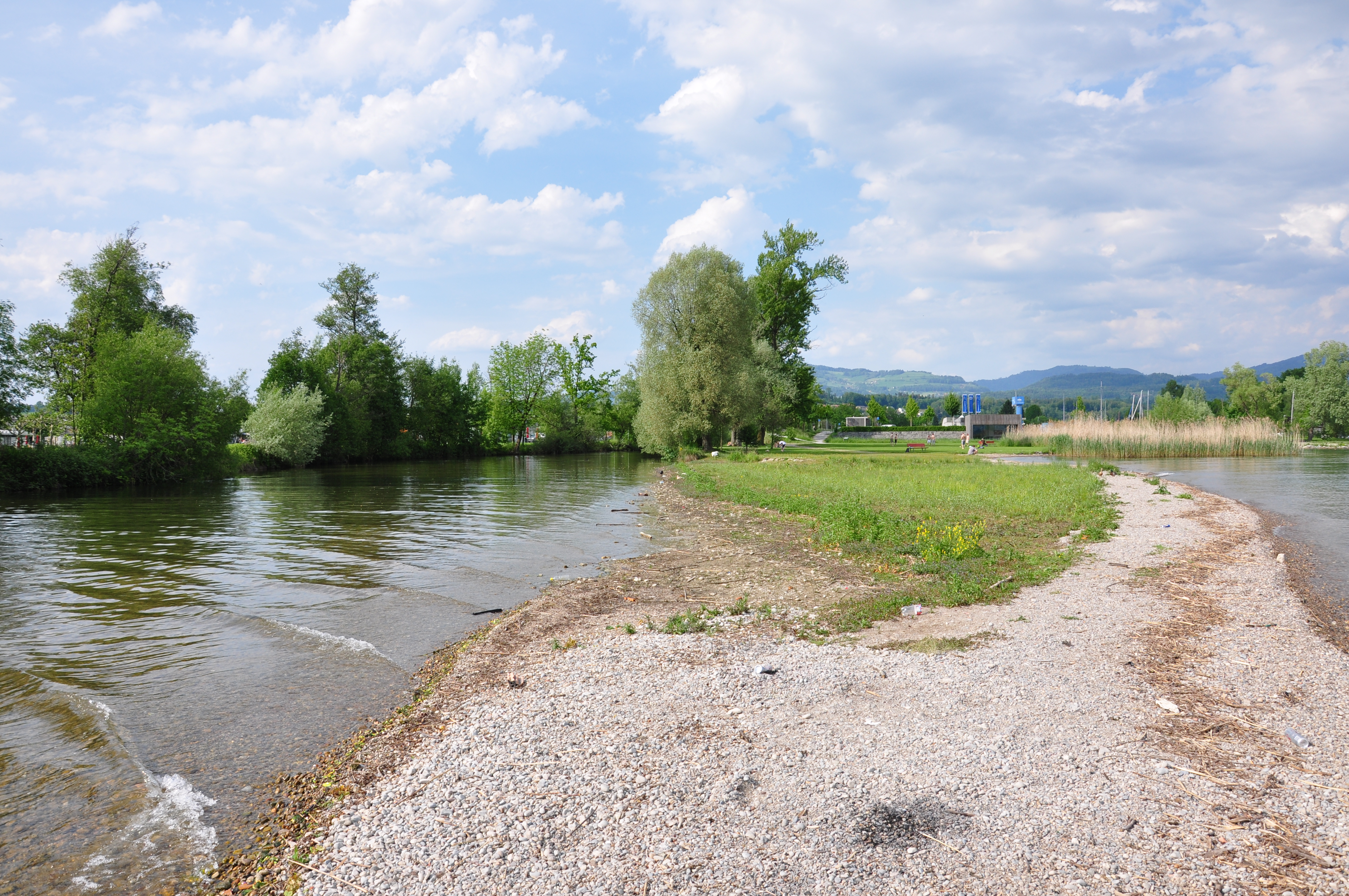 River delta respecitively confluence of Jona river and Obersee in Jona (SG) at Stampf lido